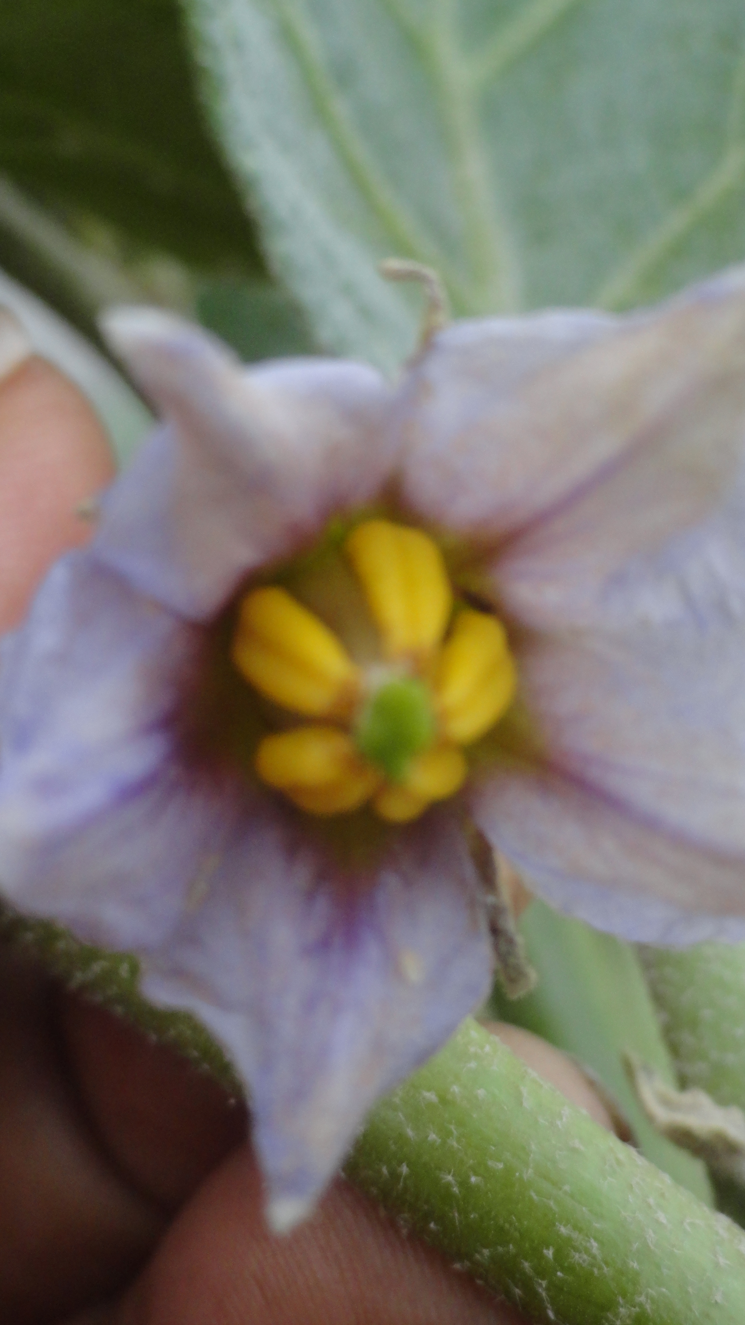 brinjal flower